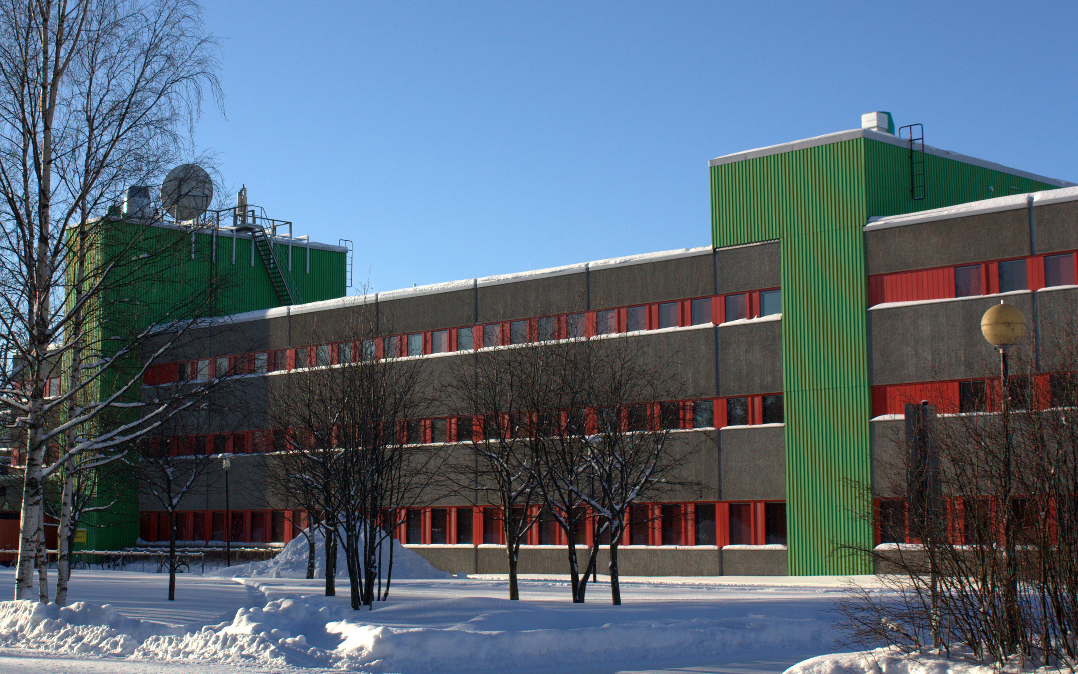 University of Oulu, Faculty of Economics and Business Administration at Linnanmaa Campus.